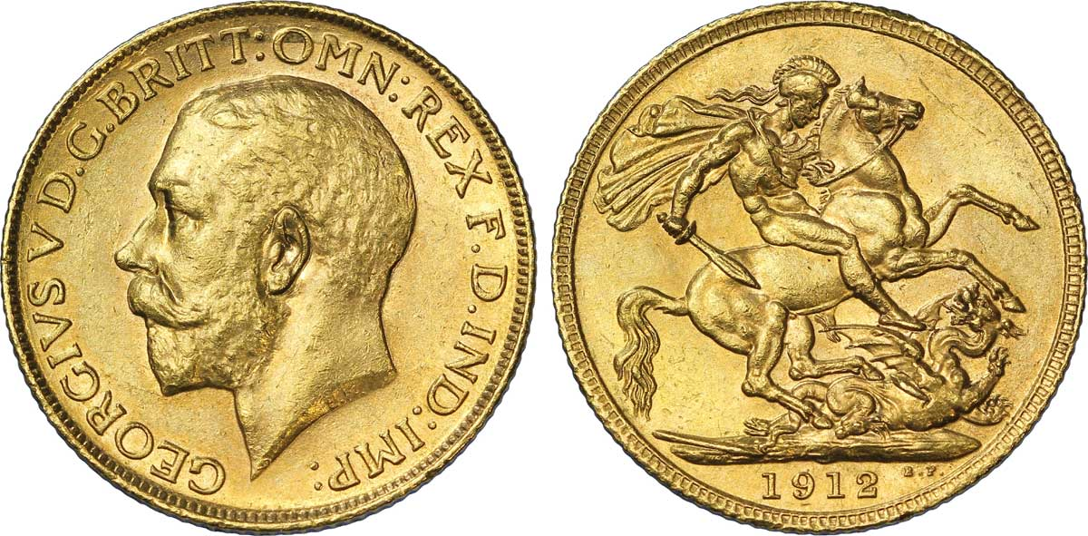 A sovereign with the effigy of George V, 1912. Translation obverse: (George V by the grace of God, king of all Britons, Defender of the Faith, Emperor of India).